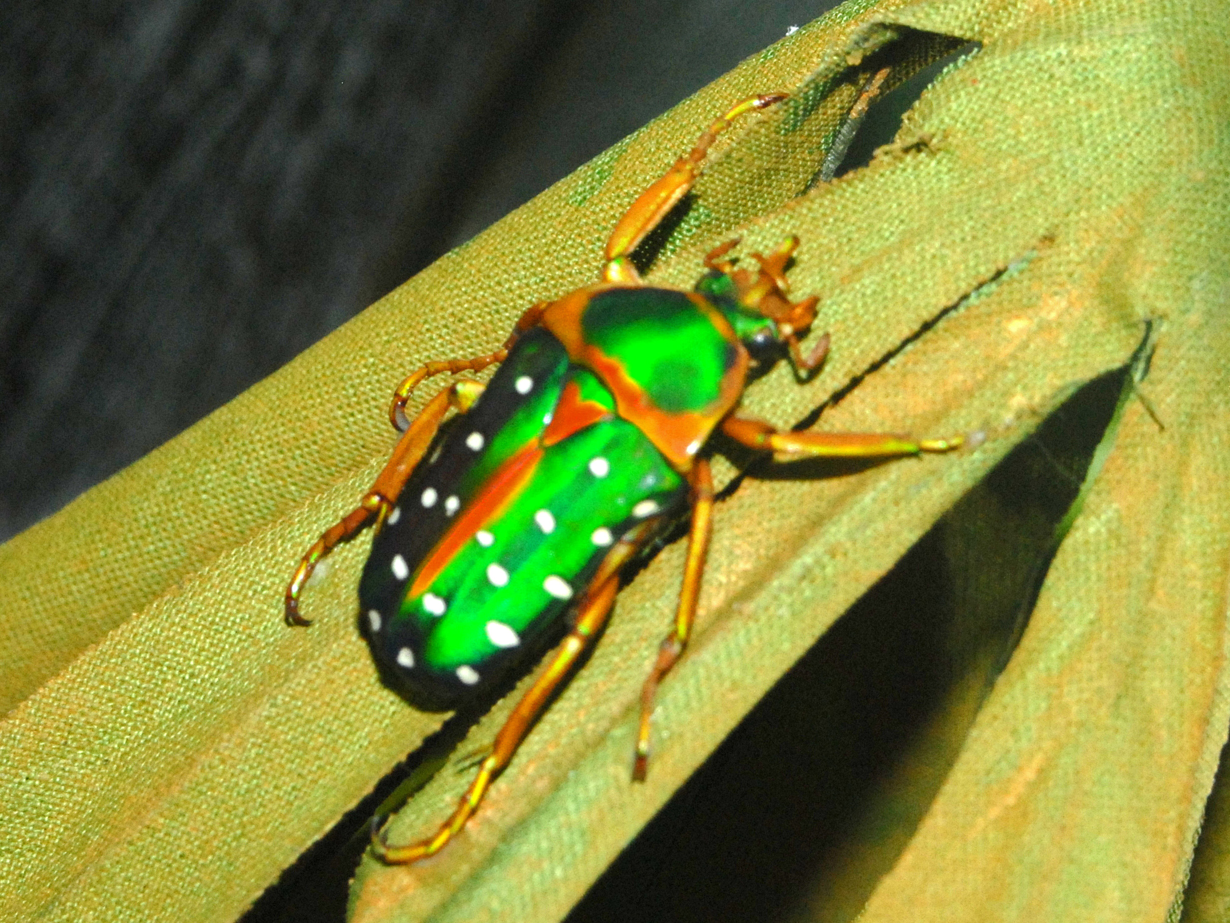 Stephanorrhina guttata. Mounted specimen at the Museo Civico di Storia Naturale di Milano